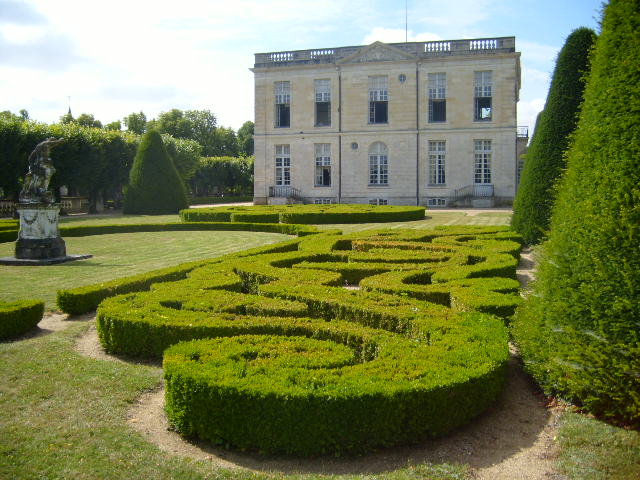 View of the Chateau de Bouges